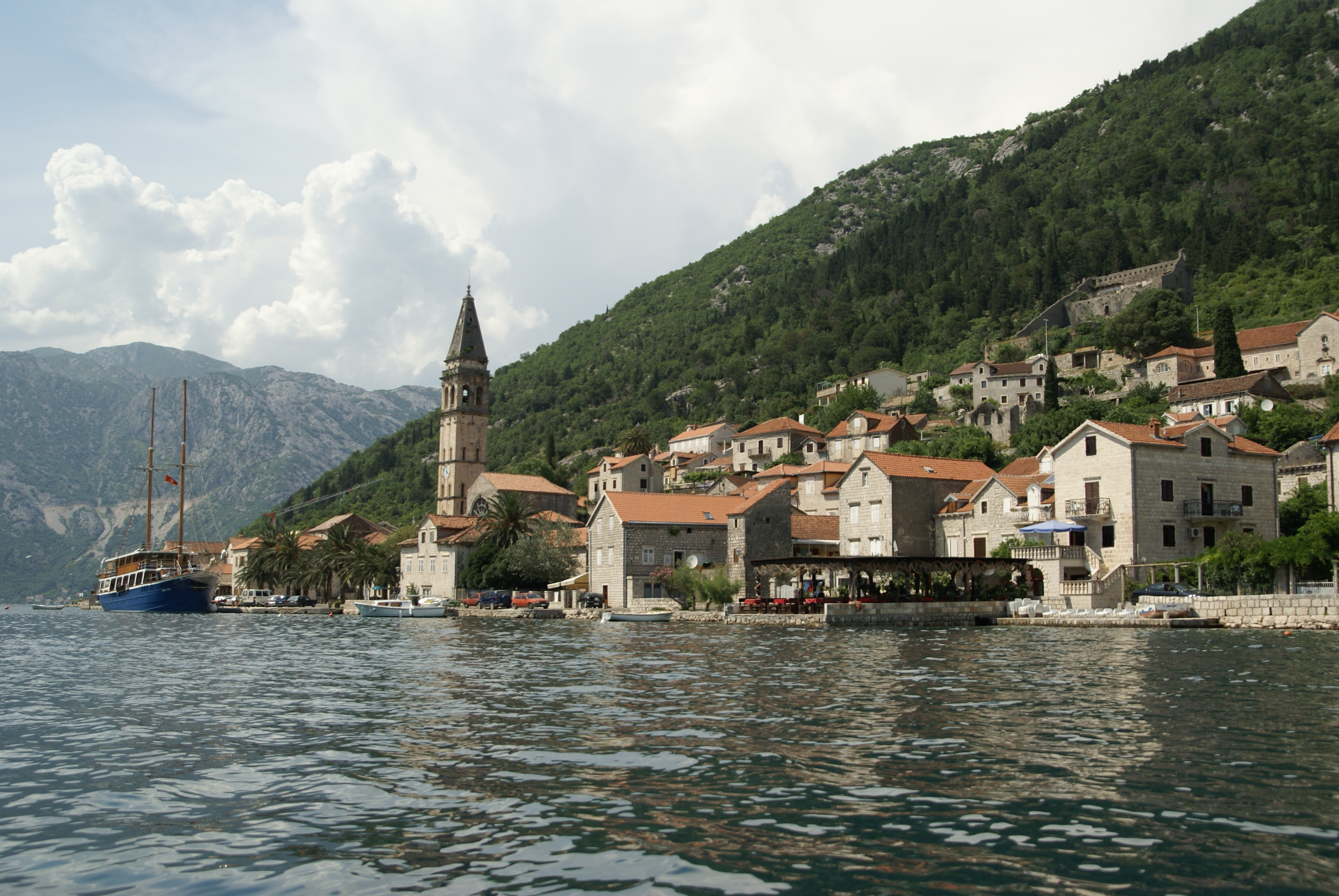 Perast, Montenegro